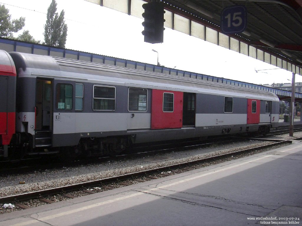 Baggage car Dmsz 51 81 95-70 010-0 of the ÖBB on 2003-07-24 in Vienna South Station (photo: tobias b köhler, license: GNU-FDL)